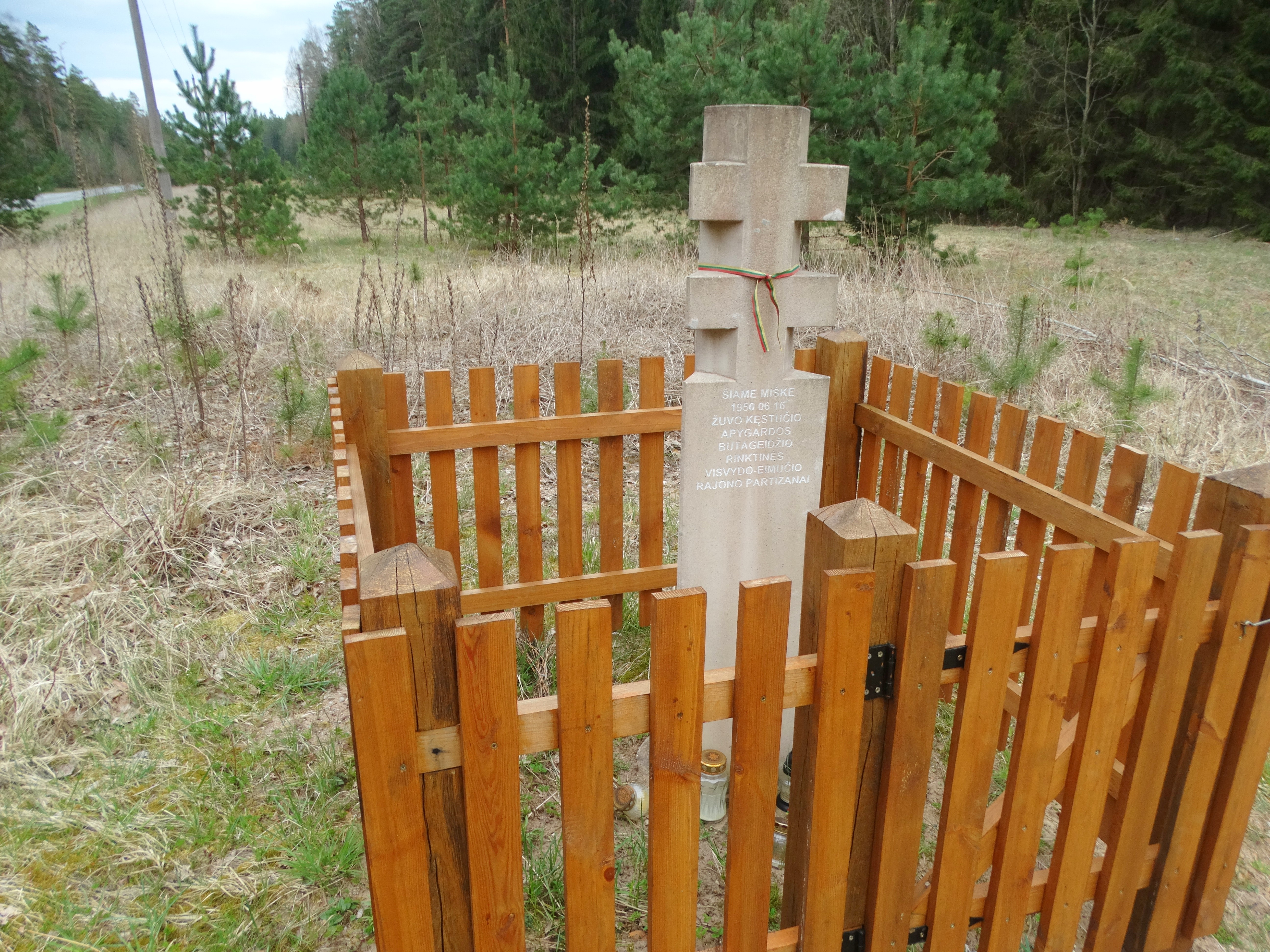 Eičiai, Tauragė district, Lithuania